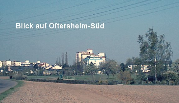 Oftersheim-South in Baden-Württemberg, Germany